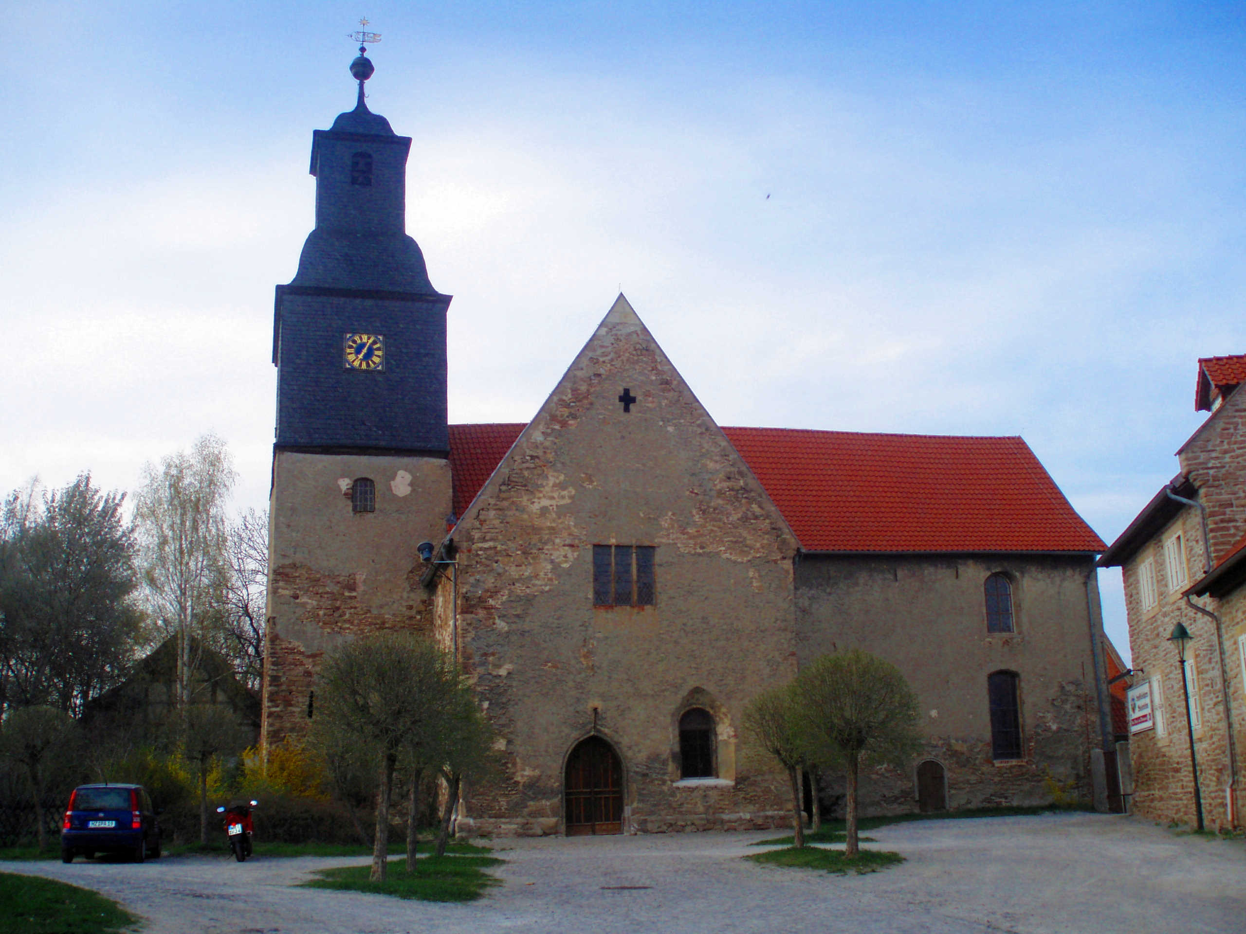 Church of Wasserleben